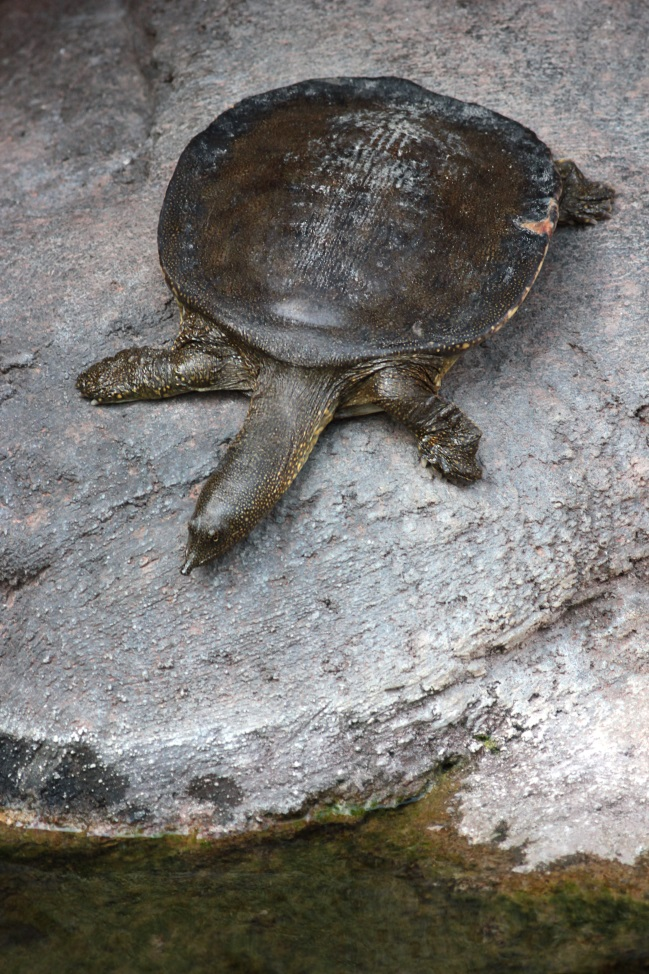 Photo from the Flickr stream of JohnBWilson shared under Creative Commons licensing: The United States and eight African nations have submitted a proposal to include six species of African and Middle Eastern softshell turtles in Appendix II of CITES.